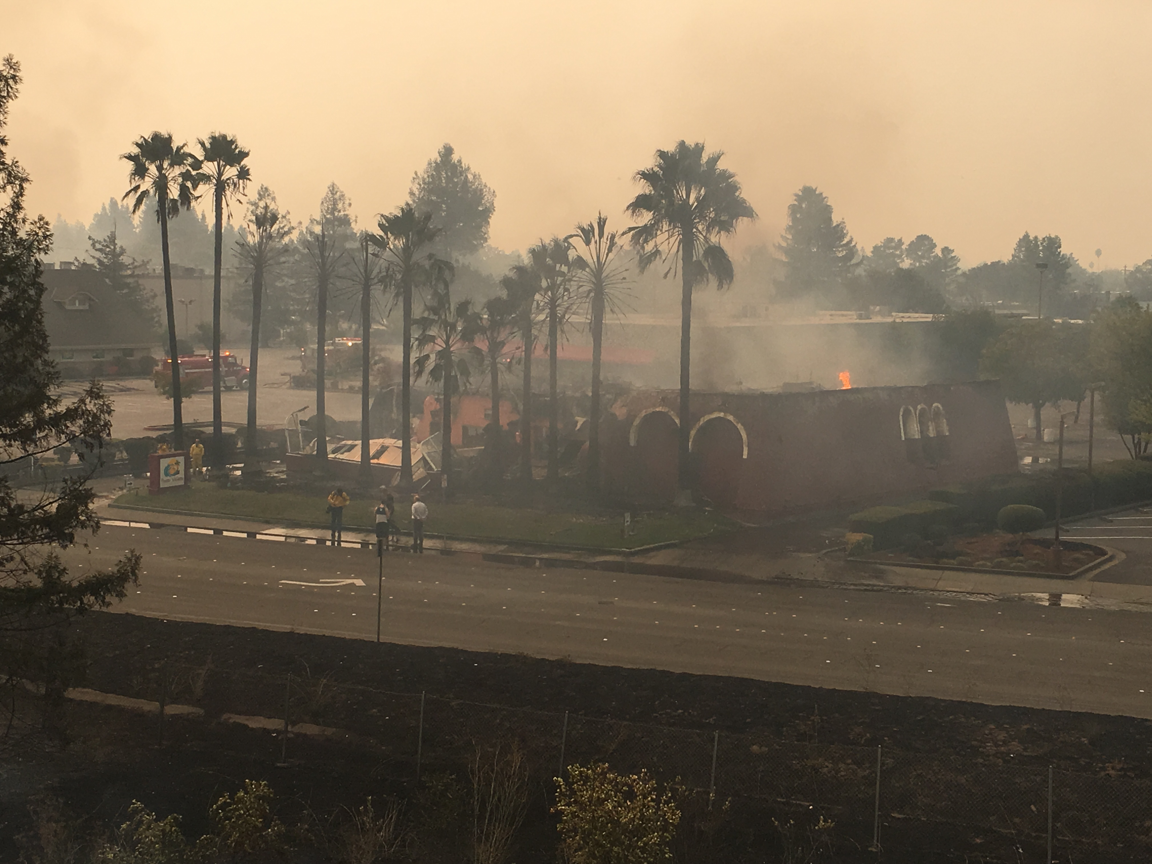 The Puerto Vallarta Mexican Restaurant continues to burn following the Tubbs Fire on 9 October 2017 (Santa Rosa, California)